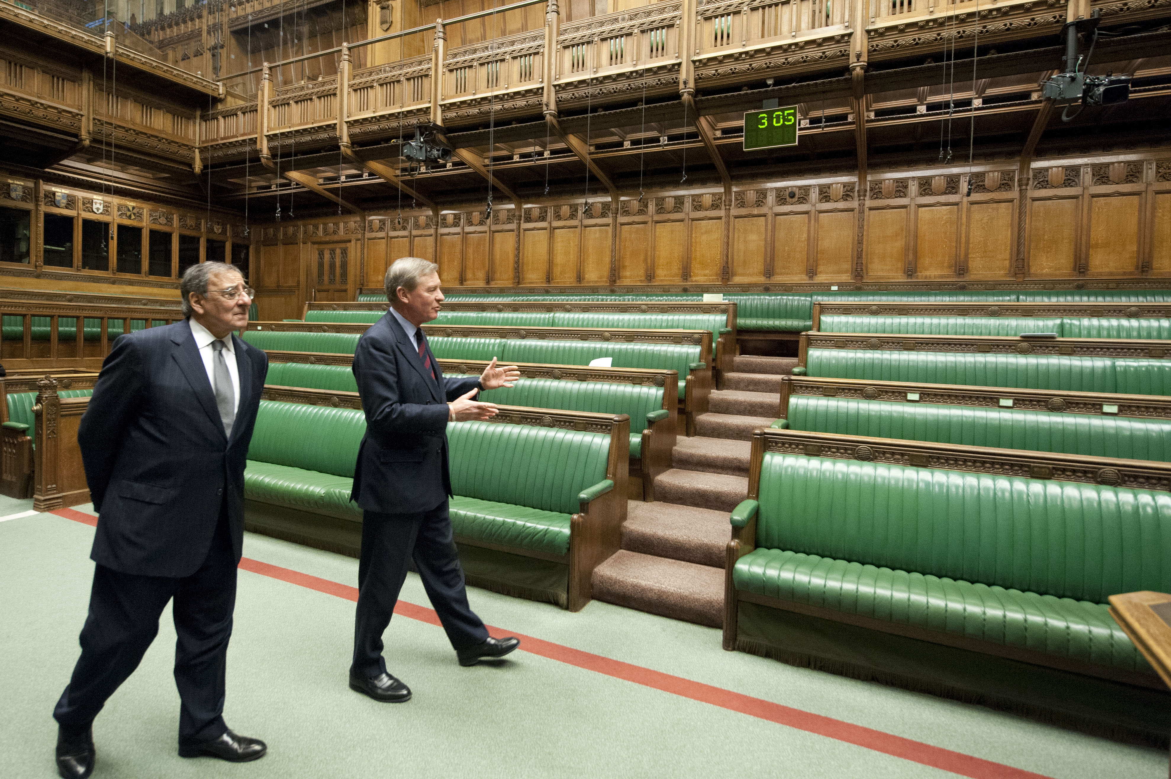 US Secretary of Defense (between 2011 and 2013) Leon E. Panetta is given a tour of the House of Commons by Minister of State for the Armed Forces of the UK (between 2012 and 2013), Andrew Robathan, in London, England, Jan. 18, 2013. Panetta is on a six day trip to Europe to visit with foreign counterparts and troops in the area.